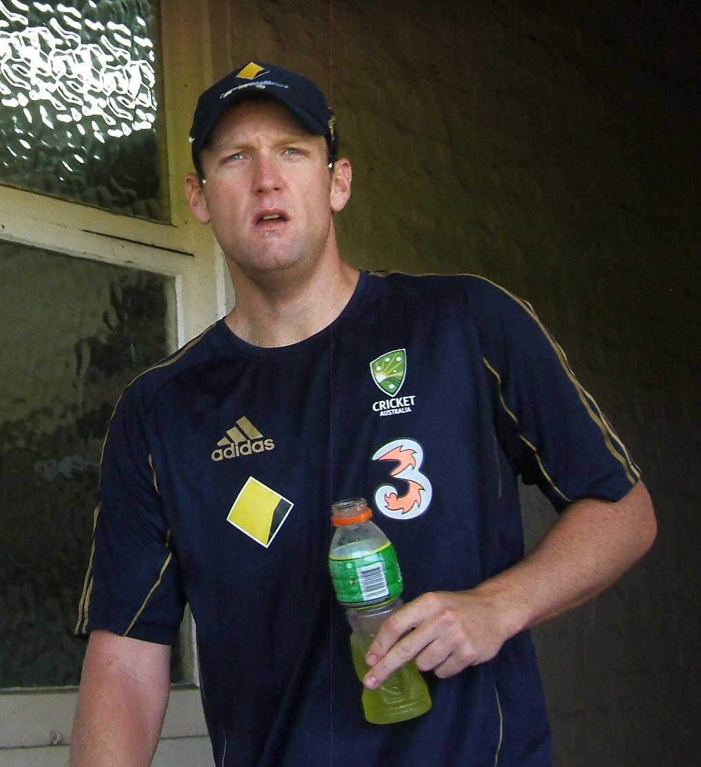 Cameron White at a training session at the Adelaide Oval